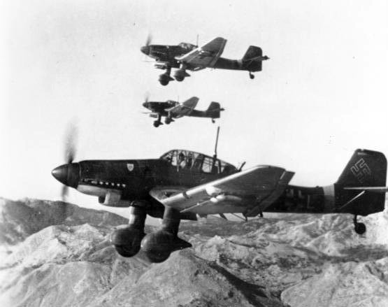 Three German Junkers Ju 87D dive bombers, Stuka, over Yugoslavia, in October 1943. SG 3 (Fighter-Bomber Wing 3) operated in the Mediterranean region at that time.